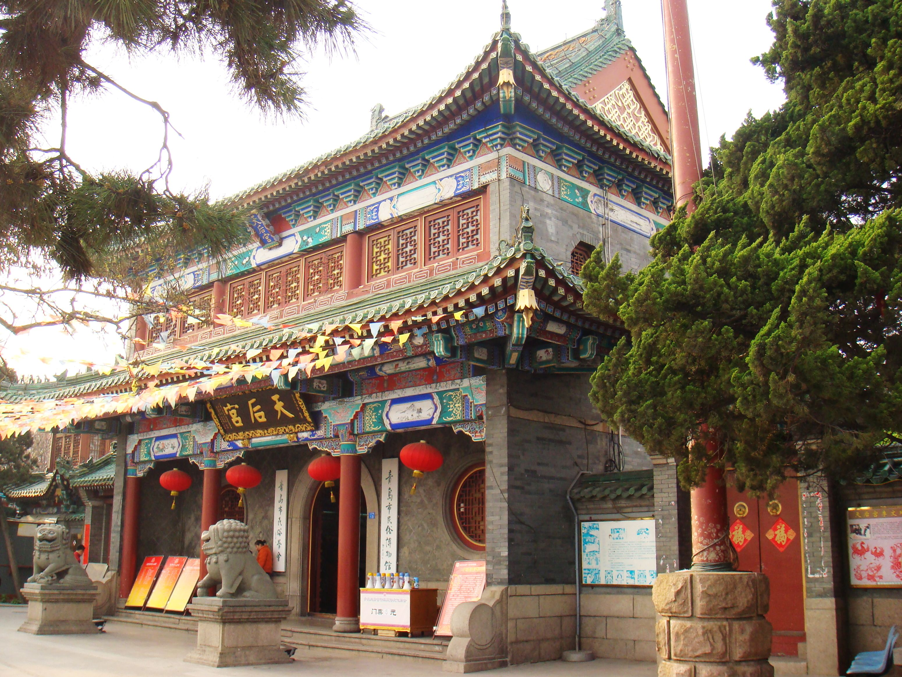 The Thean Hou Temple of Qingdao.